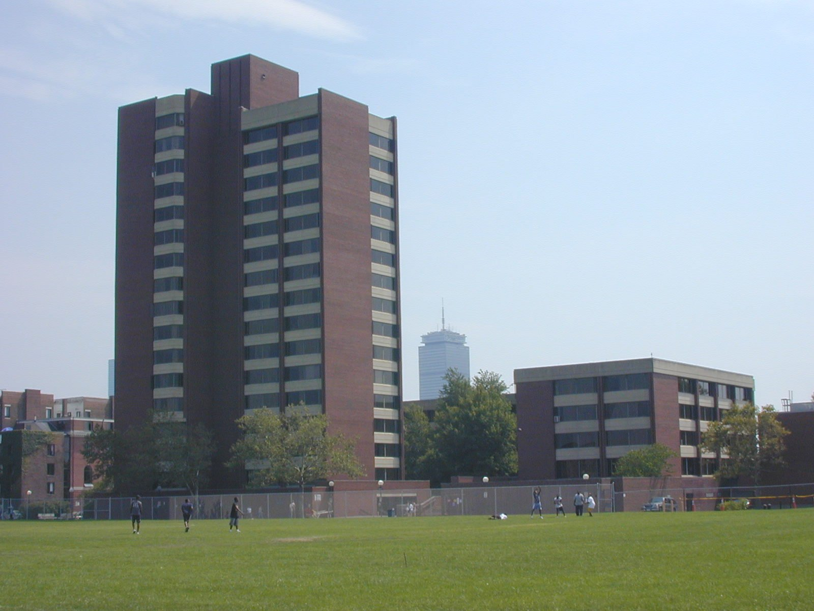 Photograph of MacGregor House undergraduate dormitory at the Massachusetts Institute of Technology, Cambridge, Massachusetts, USA; taken on August 27, 2000. The Prudential Tower (in Boston across the Charles River) can be seen in the background behind MacGregor.